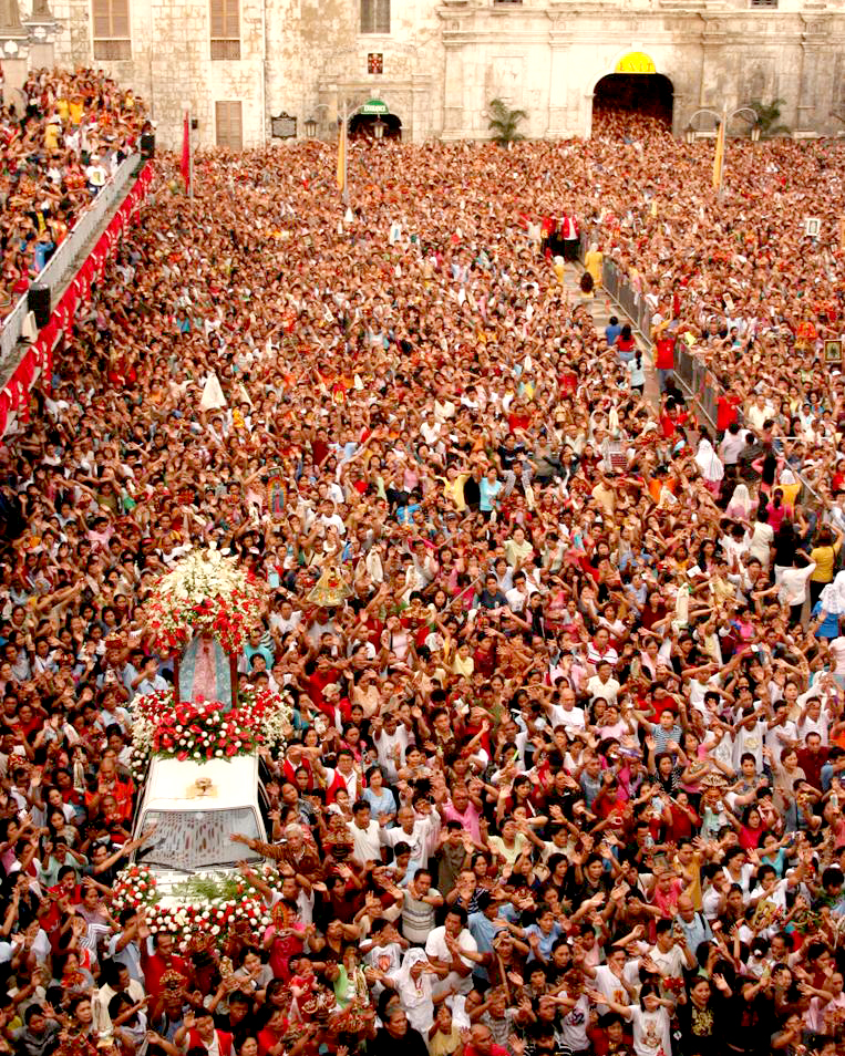 Batobalani sa gugma